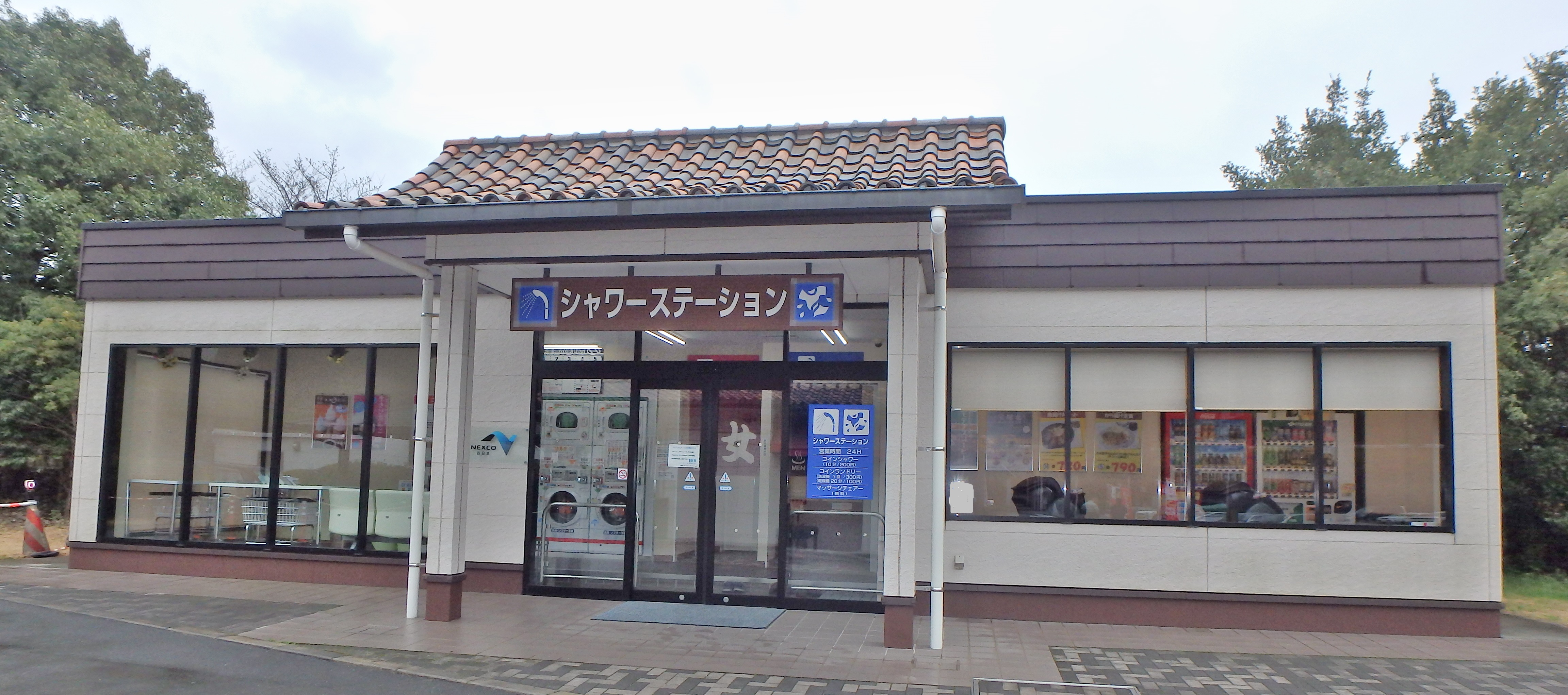 Shower Station in Seto PA,Okayama prefecture,Japan